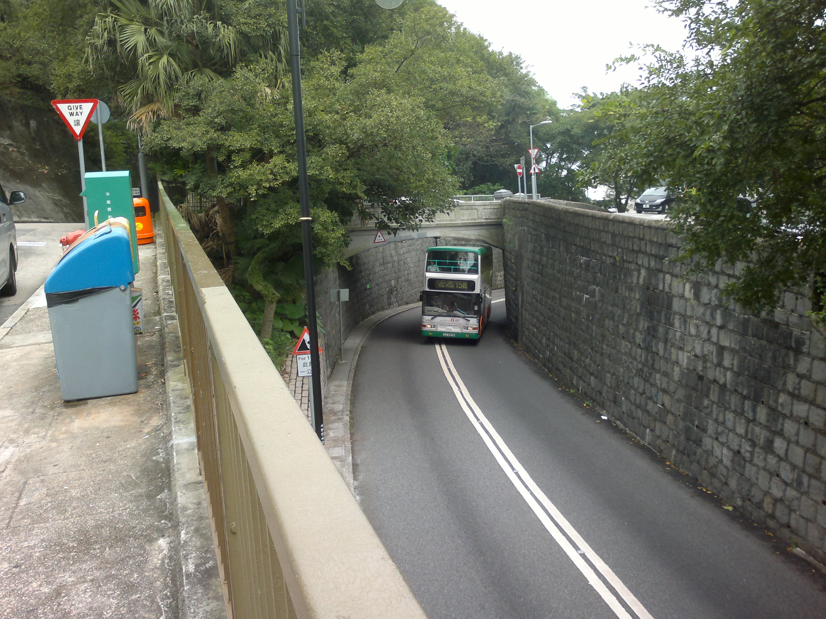 Mount Kellett Road Bridge